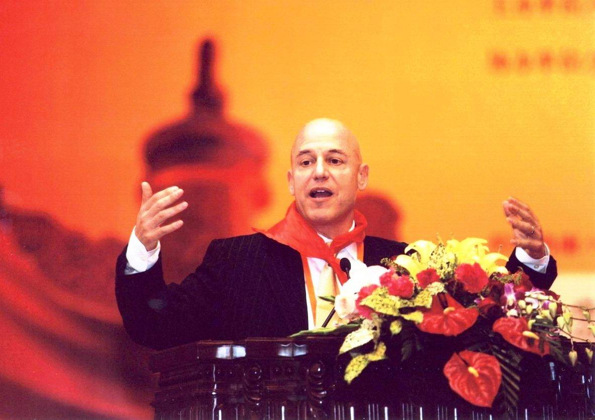 Professor Pilzer was invited to address the nation by the People Republic of China in December 2009.